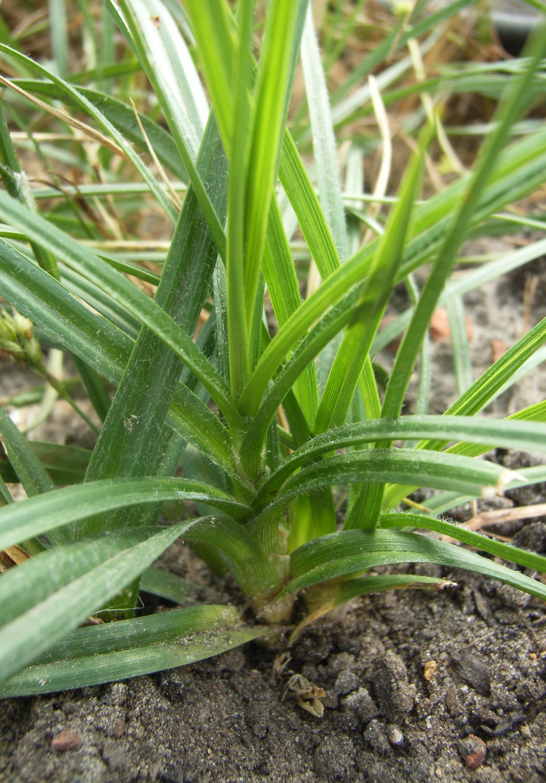 Carex hirta, sandy wayside, Lower Saxony (Germany)